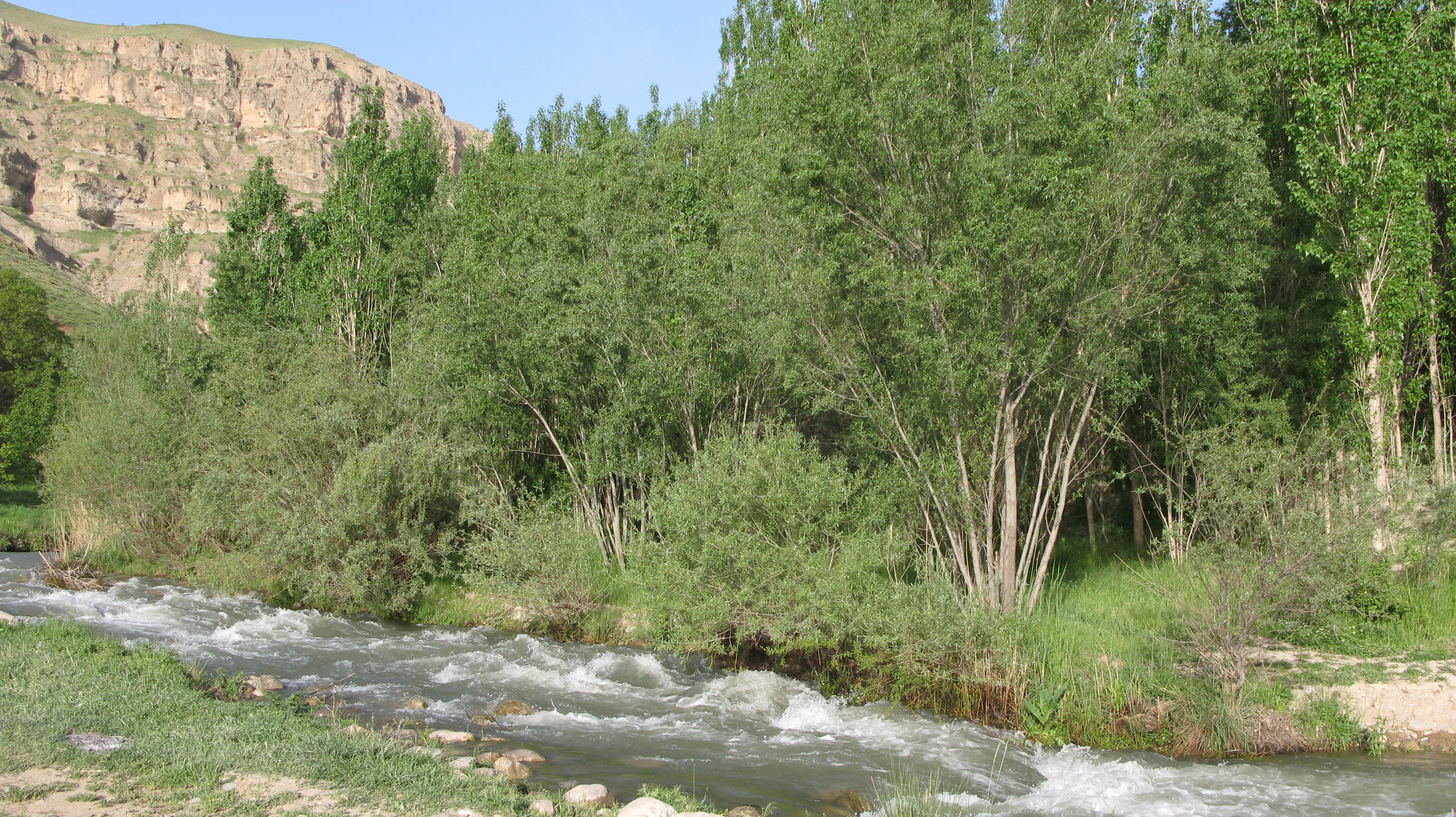 Borujerd